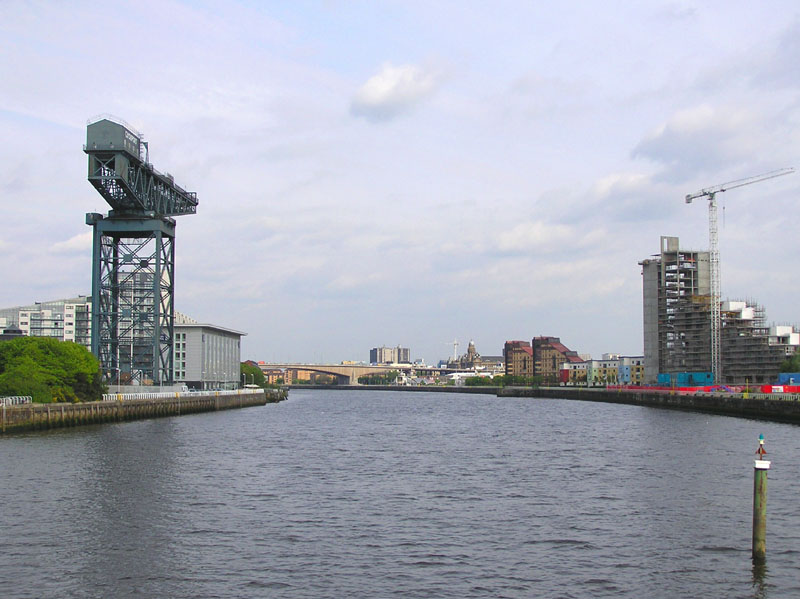 The River Clyde flowing through central Glasgow in Scotland. This view, looking east at the city centre from the Bell's Bridge near the Scottish Exhibition and Conference Centre shows the Kingston Bridge (carrying the M8 motorway over the river). The photograph shows the effects of gentrification in the once heavily industrialised port areas of the country. The Finnieston Crane on the left dates from when Glasgow was one of the busiest ports in the world. Shipping moved to deeper ports downstream after the second world war, and the quay areas of Glasgow fell into decline and decay. The city's renaissance in the 1980s and 90s led this area being rebuilt with expensive office and particularly residential developments, a process that continues today (as evidenced by the modern crane on the right, building a luxury residential block).